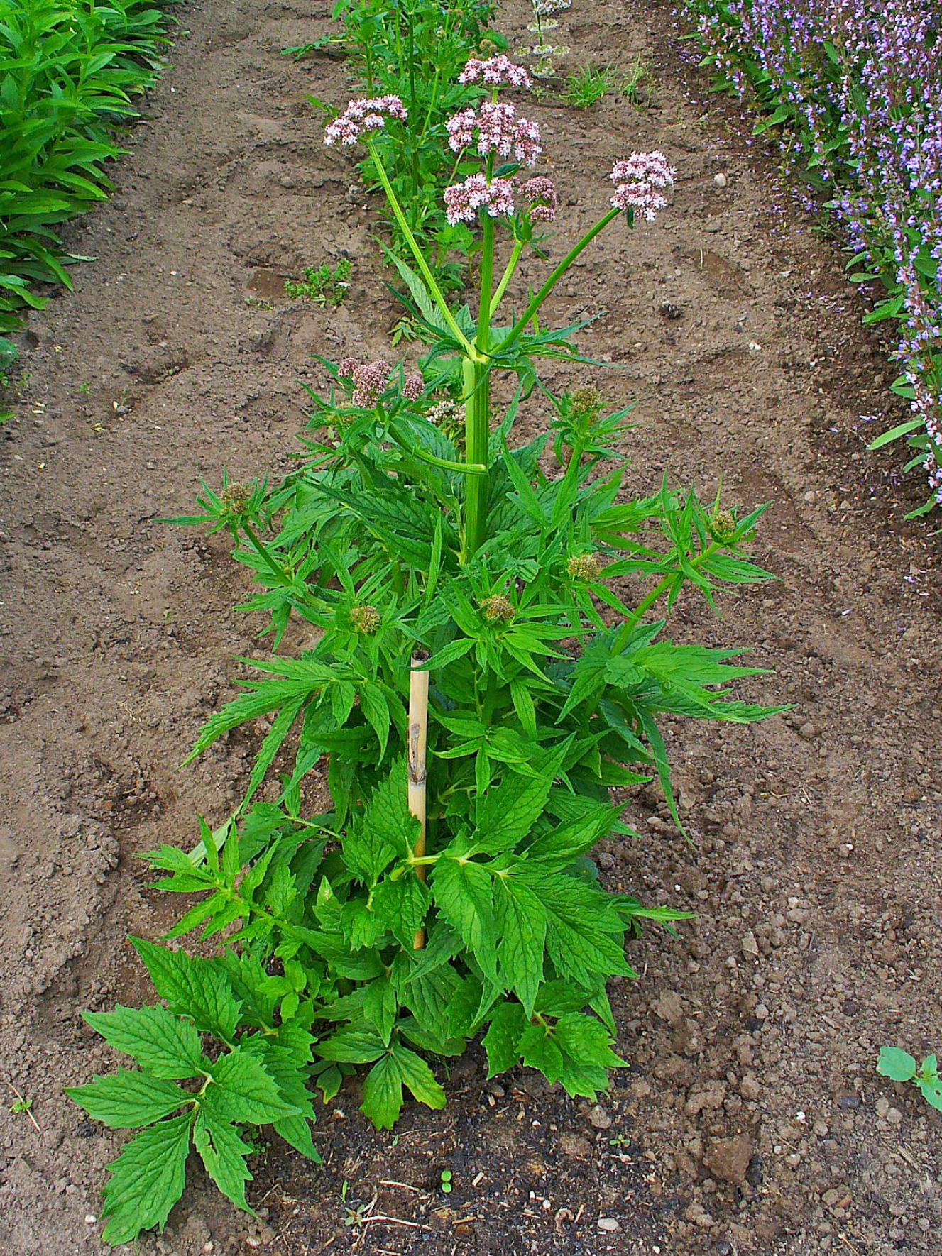 Valeriana officinalis, Valerianaceae, Valerian, habitus.